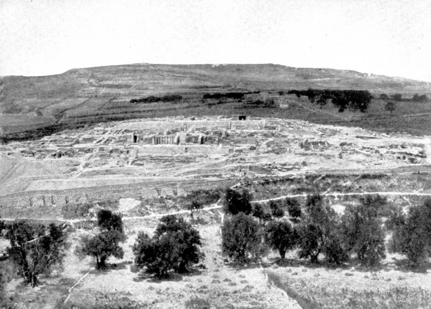 Photograph of the Palace of Knossos, an archaeological site of Crete.